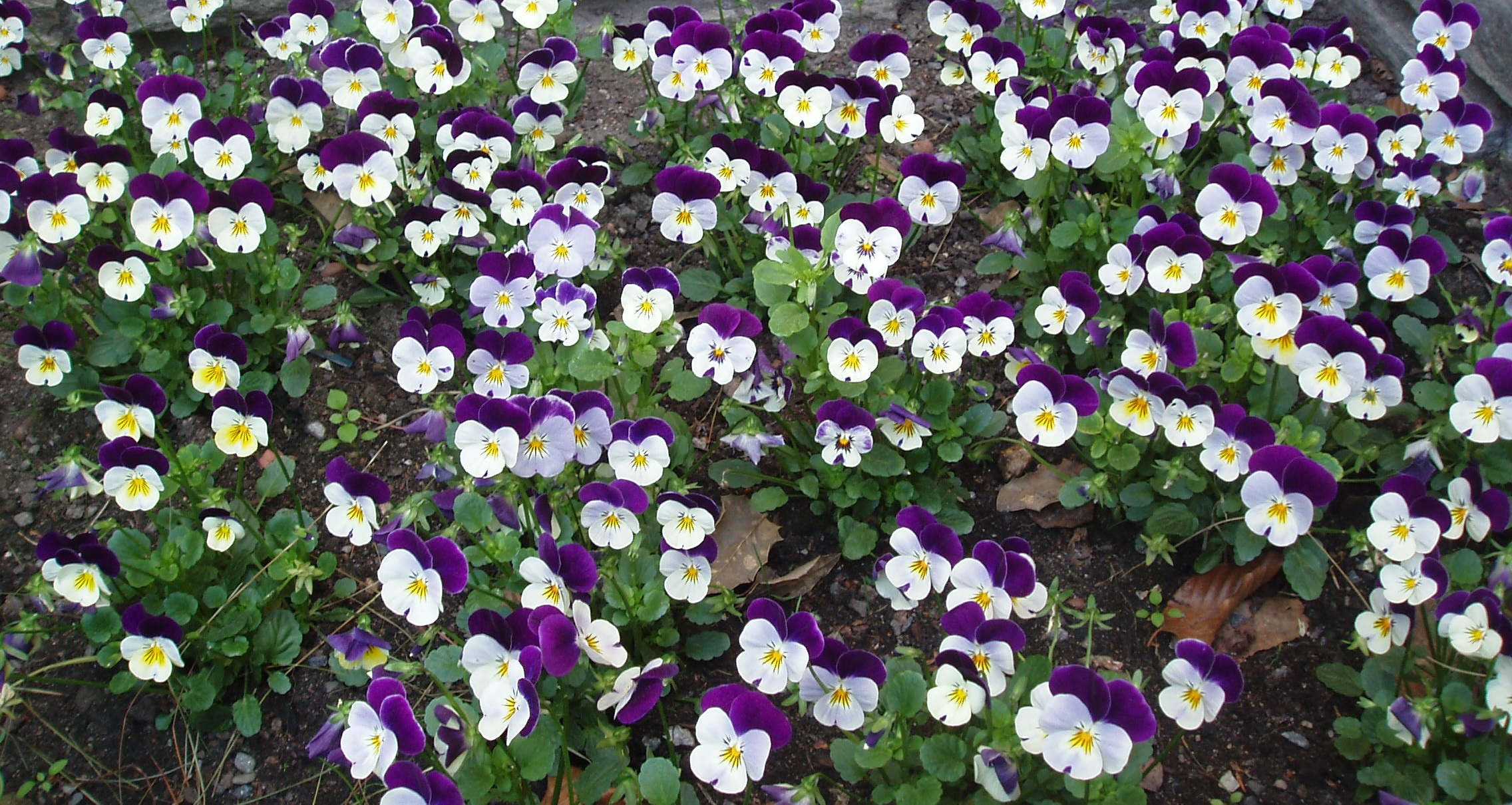 Garden Pansies Viola × wittrockiana in a flower bed at Tonsen Church in Oslo, Norway. Photo: Hans Olav Lien.